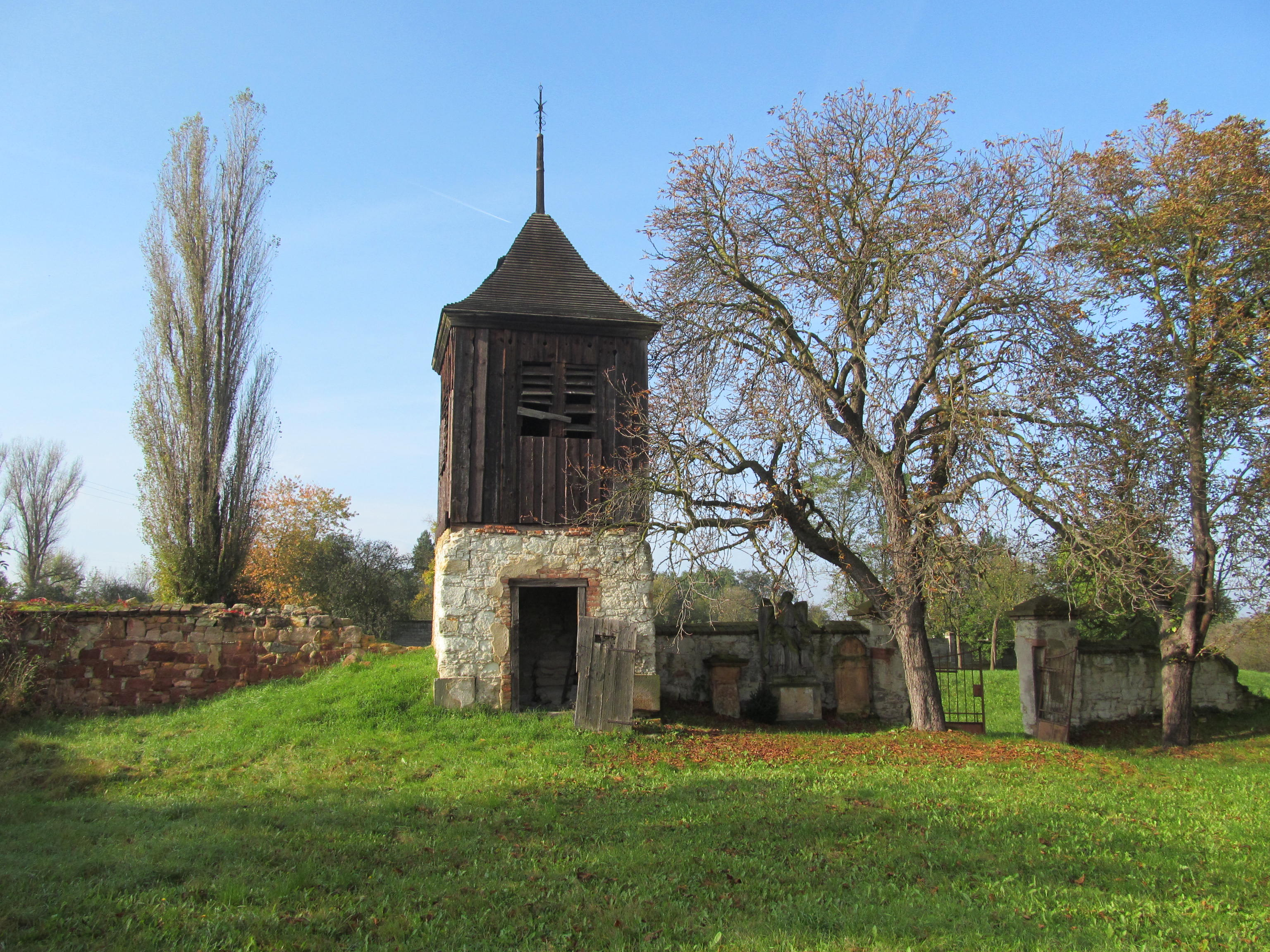 Bell tower near the church of Saint Catherine in Kněžice